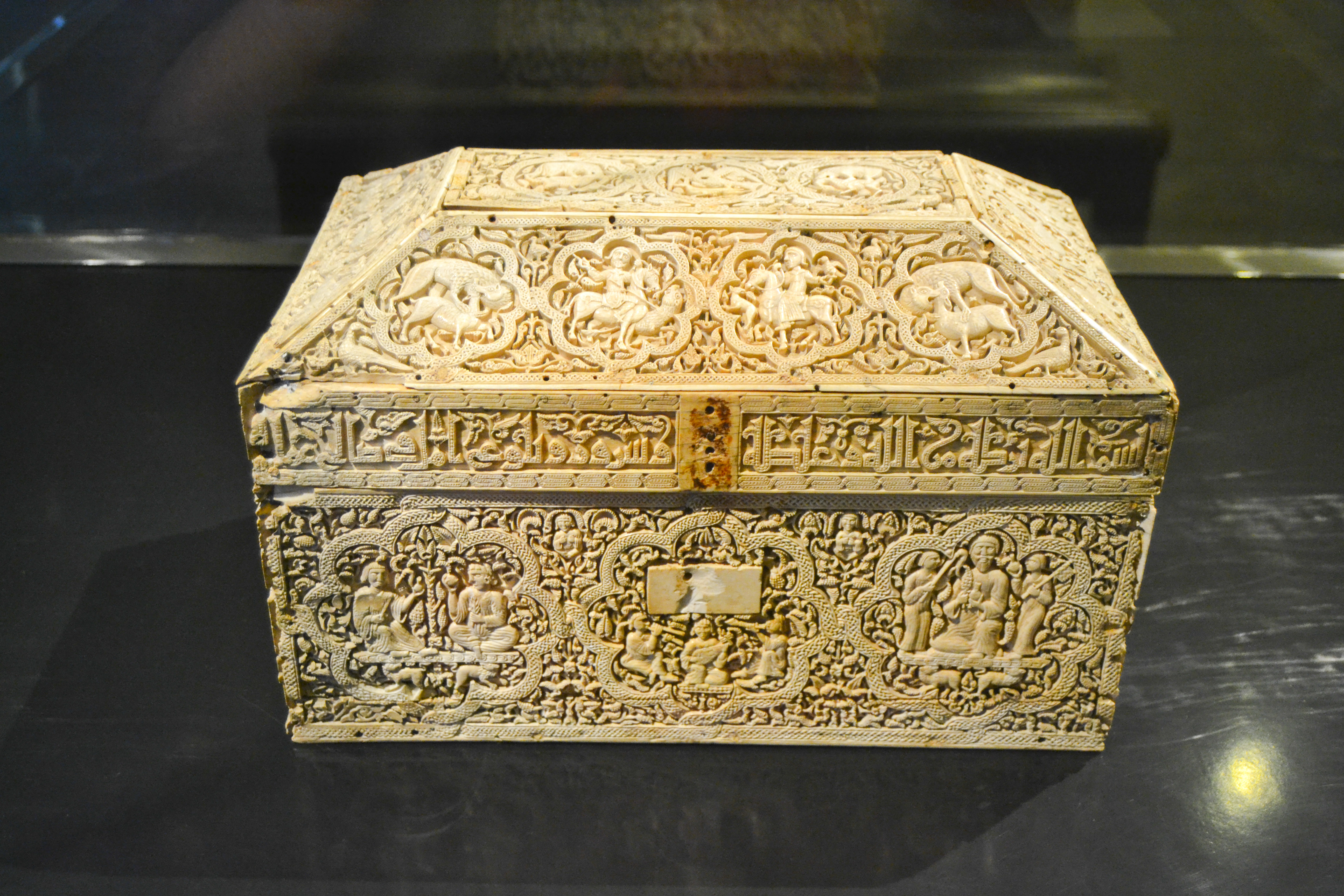 Arab ivory ark of the Middle Ages. Museum of Navarre. Pamplona. Navarre, Basque Country.